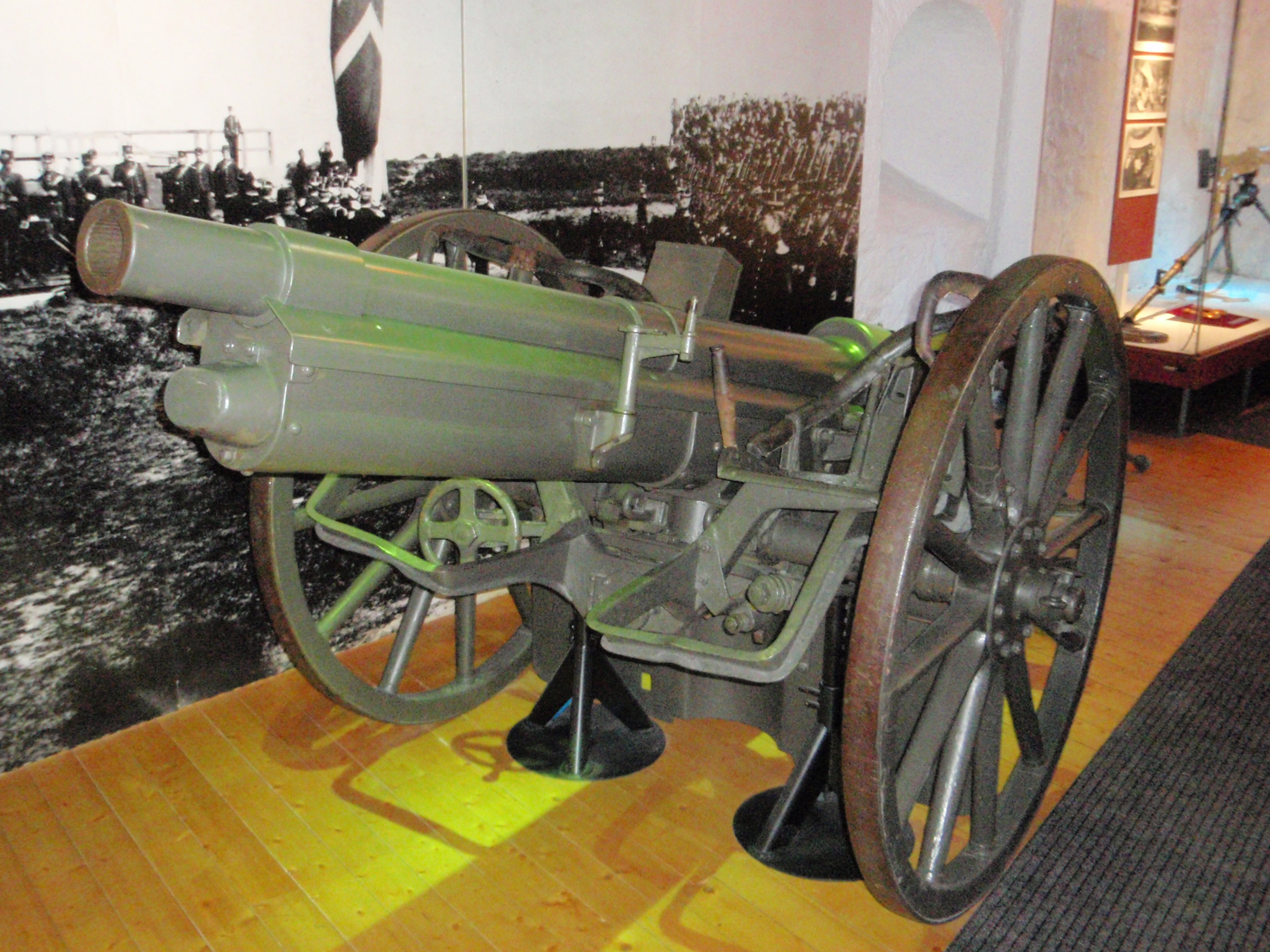 An Ehrhardt 7.5 cm Model 1901 field gun on display at the armoury museum in the Archbishop's Palace in Trondheim, Norway.